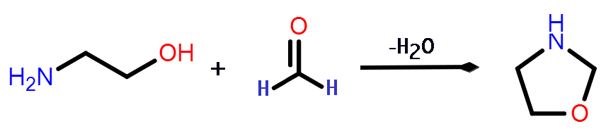 Oxazolidine synthesis from hydroxy ethanolamine